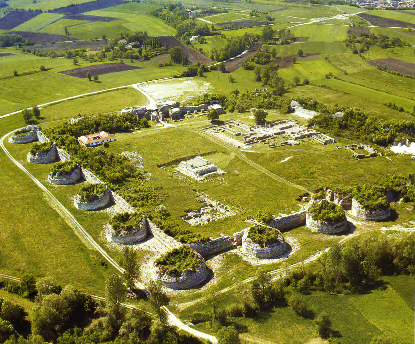 Romuliana, Gamzigrad- photo taken from air